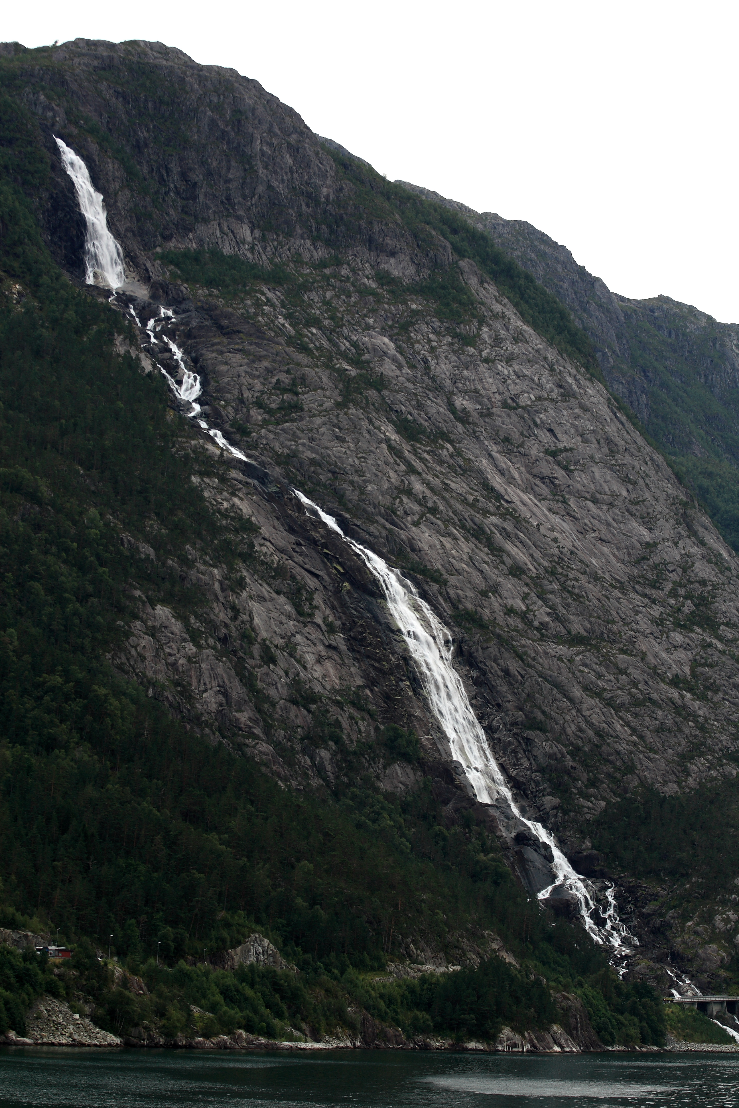 The waterfall Langfoss by Åkrafjorden in Etne, Hordaland, Norway